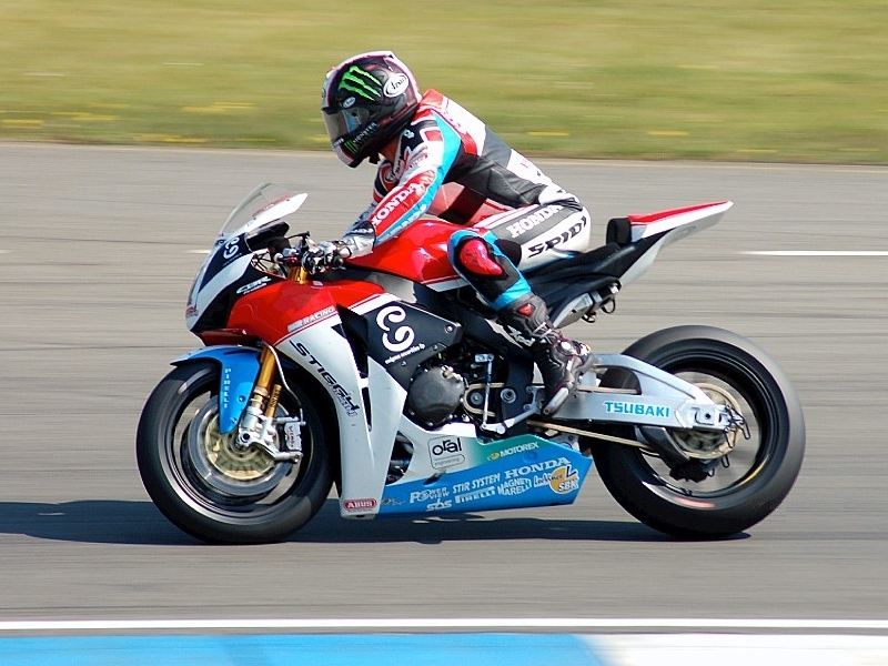 26 april Assen 2009 round 4 WSBK